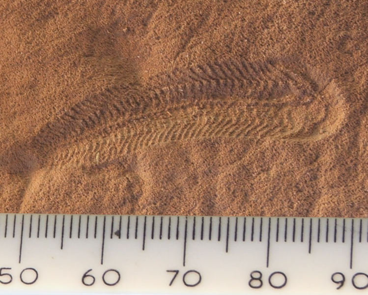 Spriggina floundensi, an Ediacarian type animal.